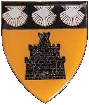 Regiment Oos Rand shoulder emblem